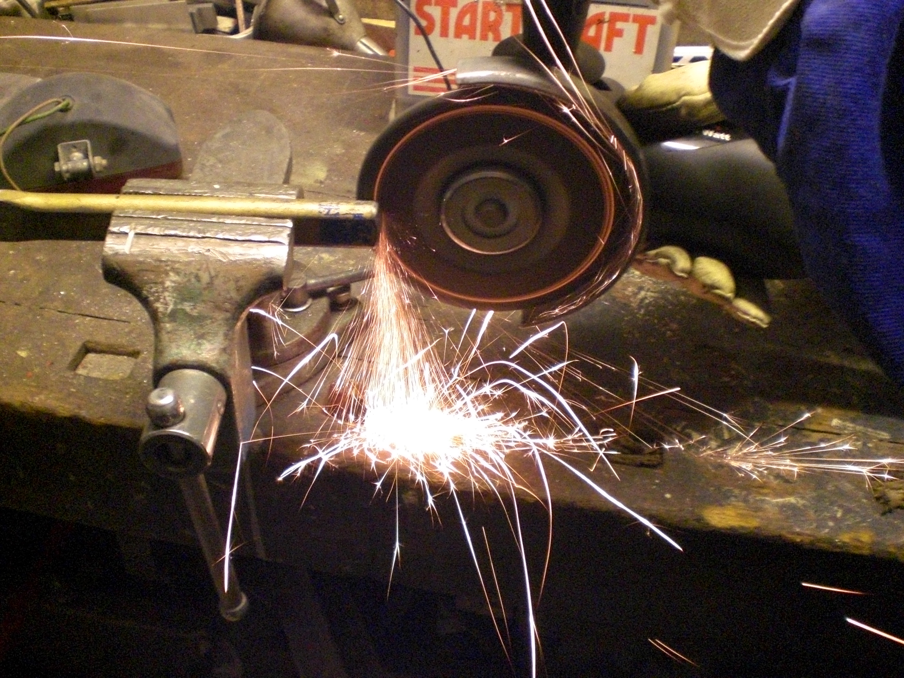 Sparks from a grinder